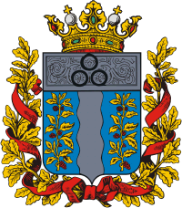 Coat of arms of Samarkand Province, Russian Empire.